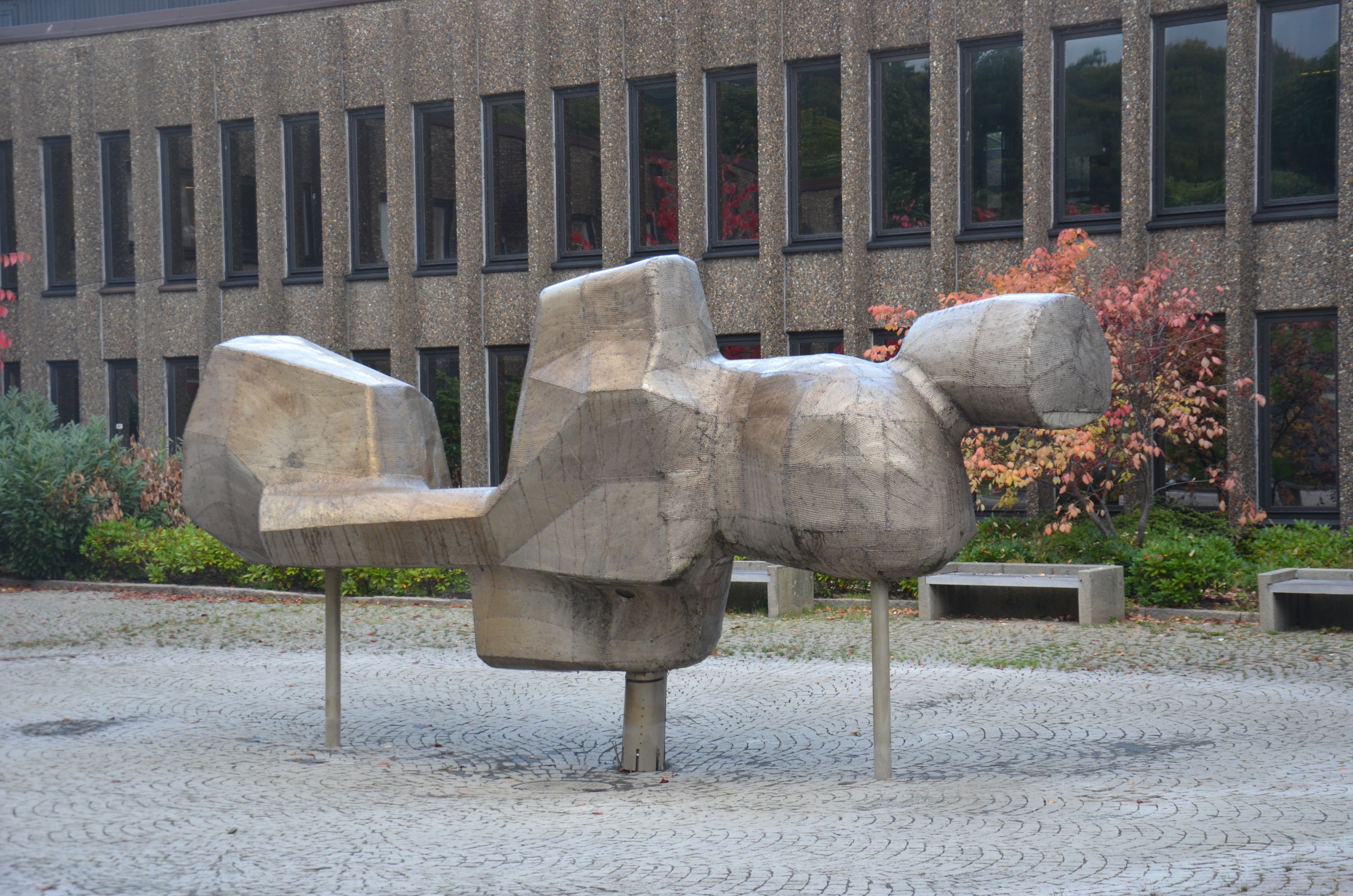 Acke Janssons Kommunvalen, utanför kommunhuset i Partille